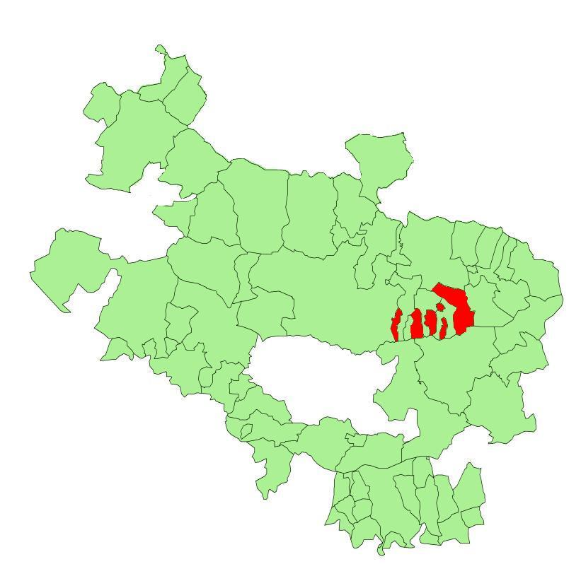 Iruraiz-Gauna municipality in the province of Alava